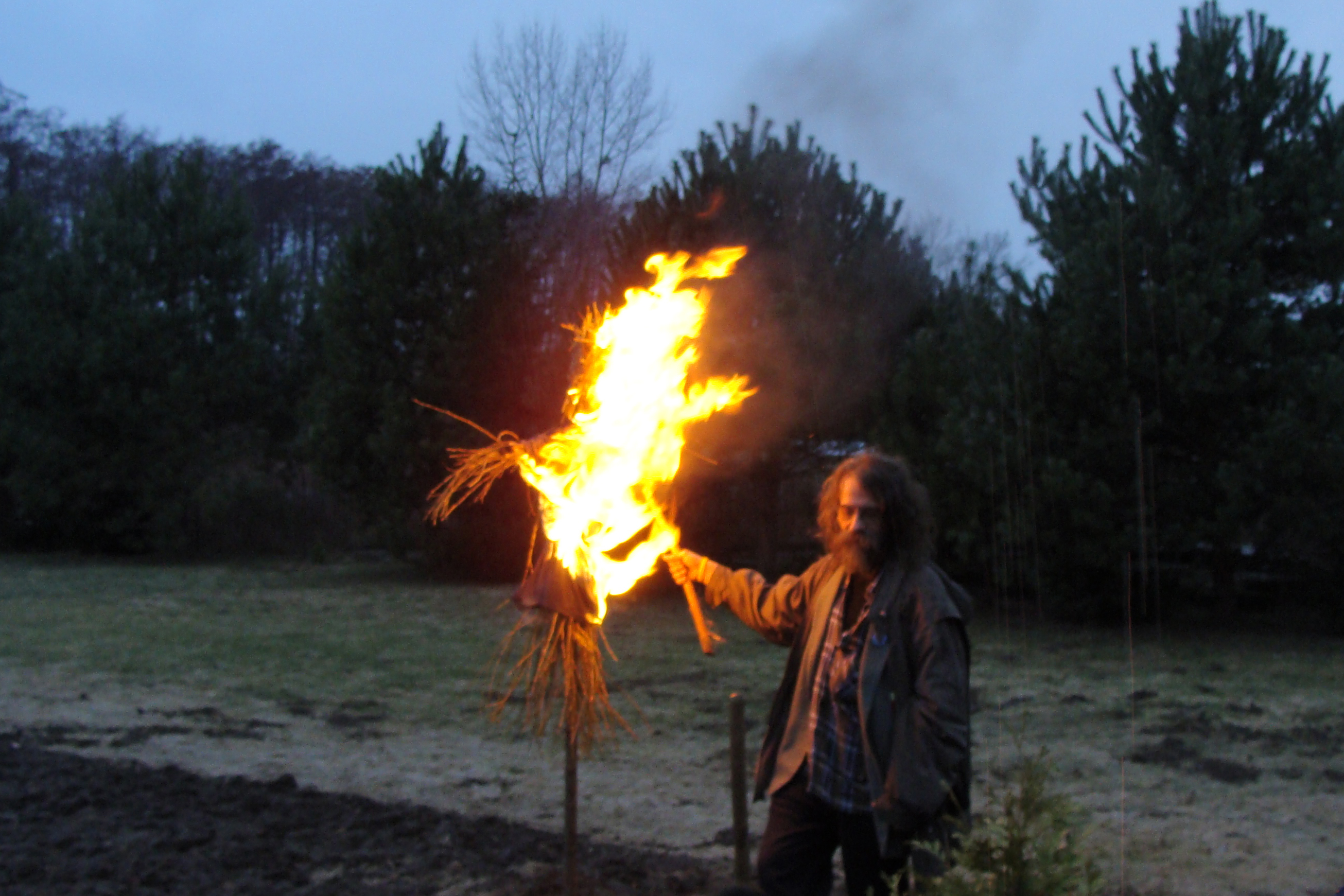 Morana